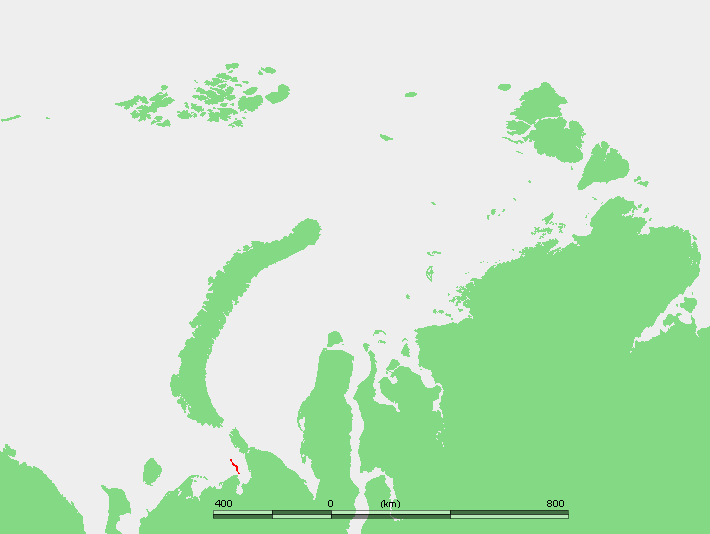 Location of Dolgiy Island in the Pechora Sea.